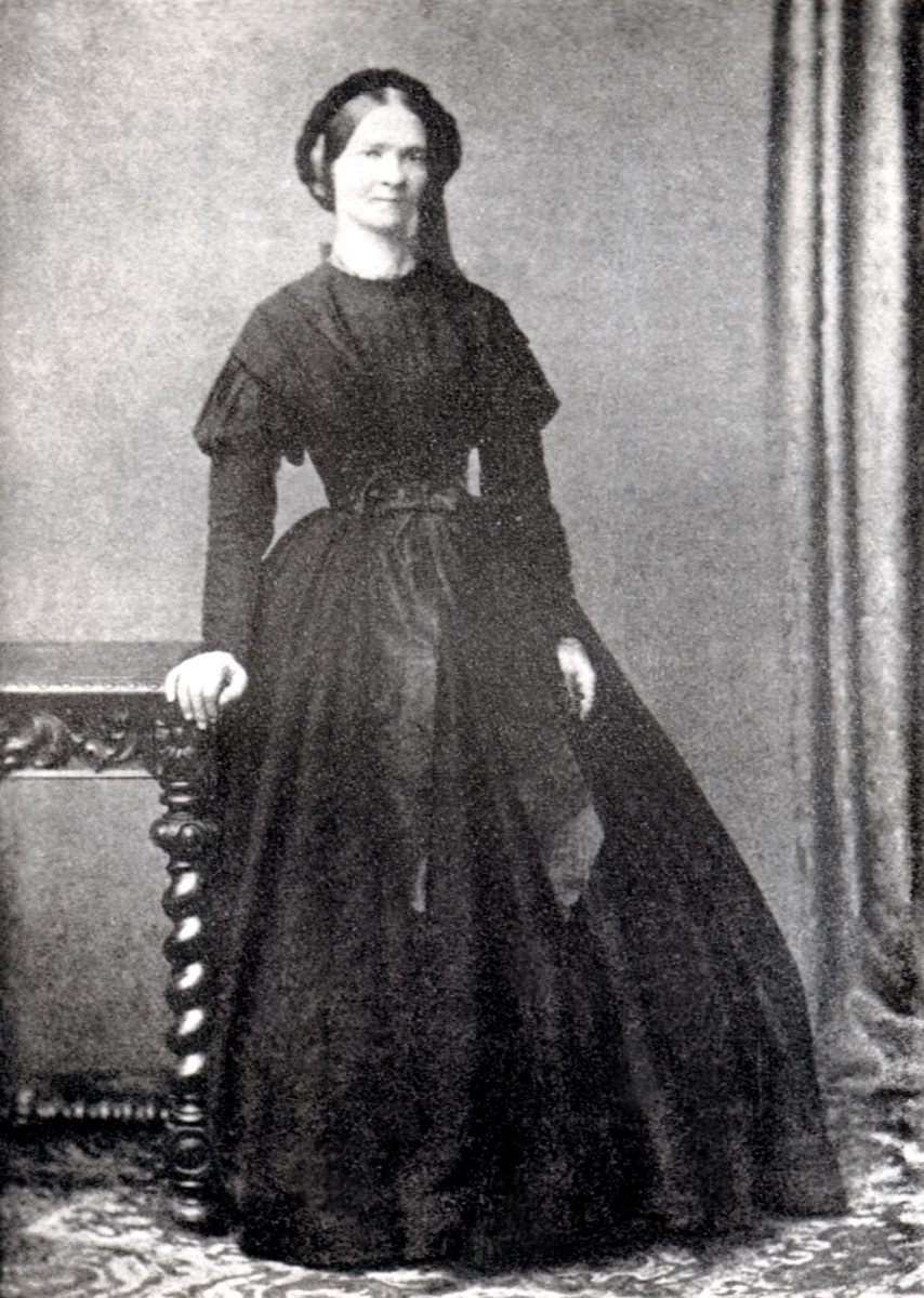 Narcyza Żmichowska, Polish writer